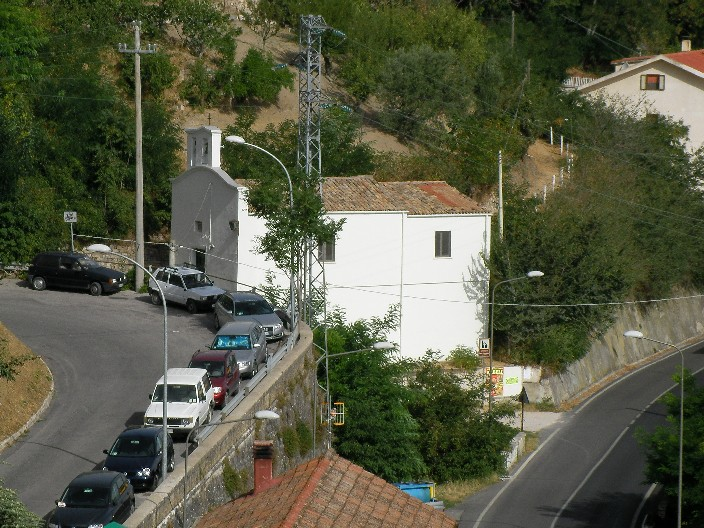 The church of St. Giuseppe to Atessa